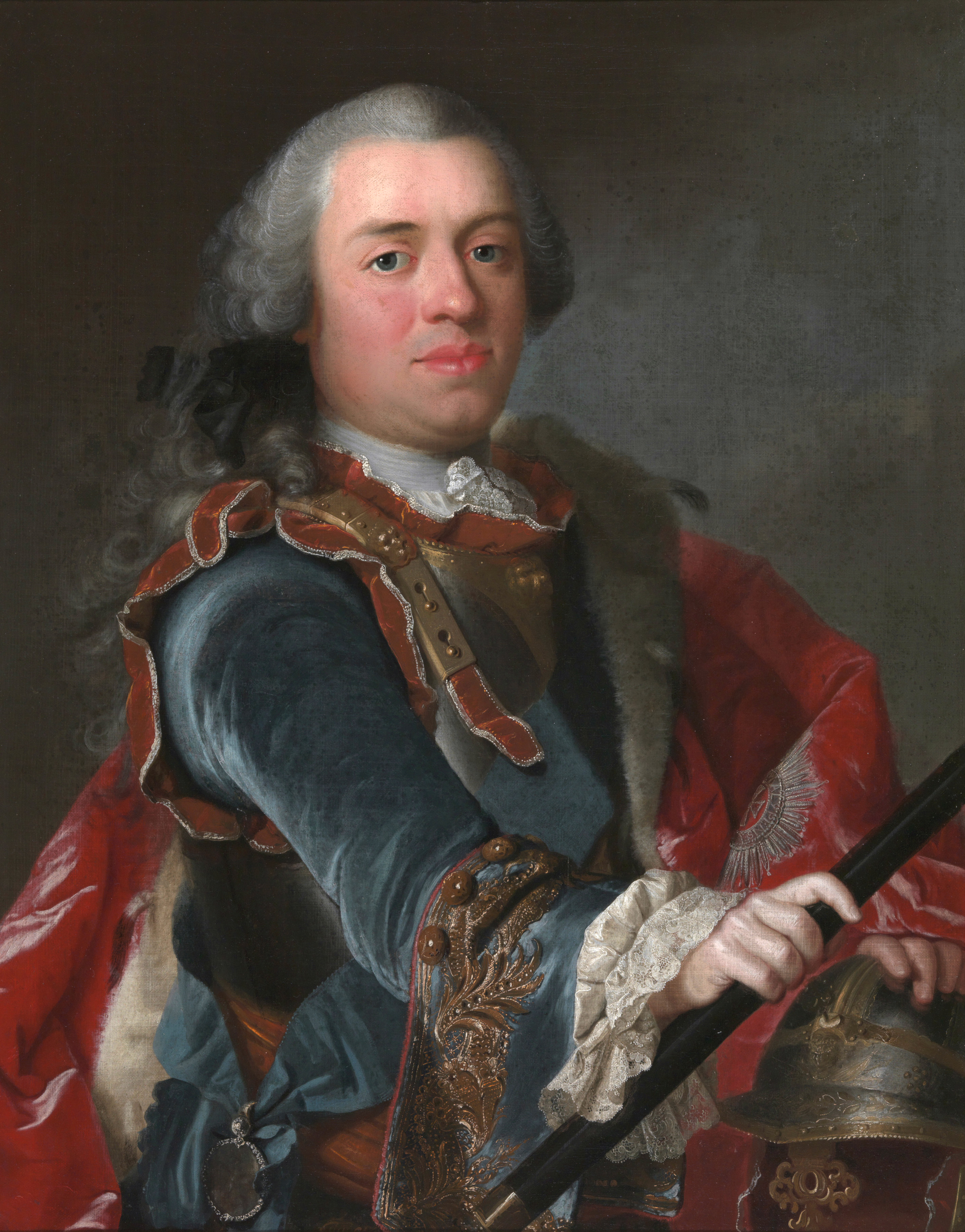 Willem Karel Hendrik Friso van Oranje-Nassau oil on canvas 87,7 x 69 cm 1751